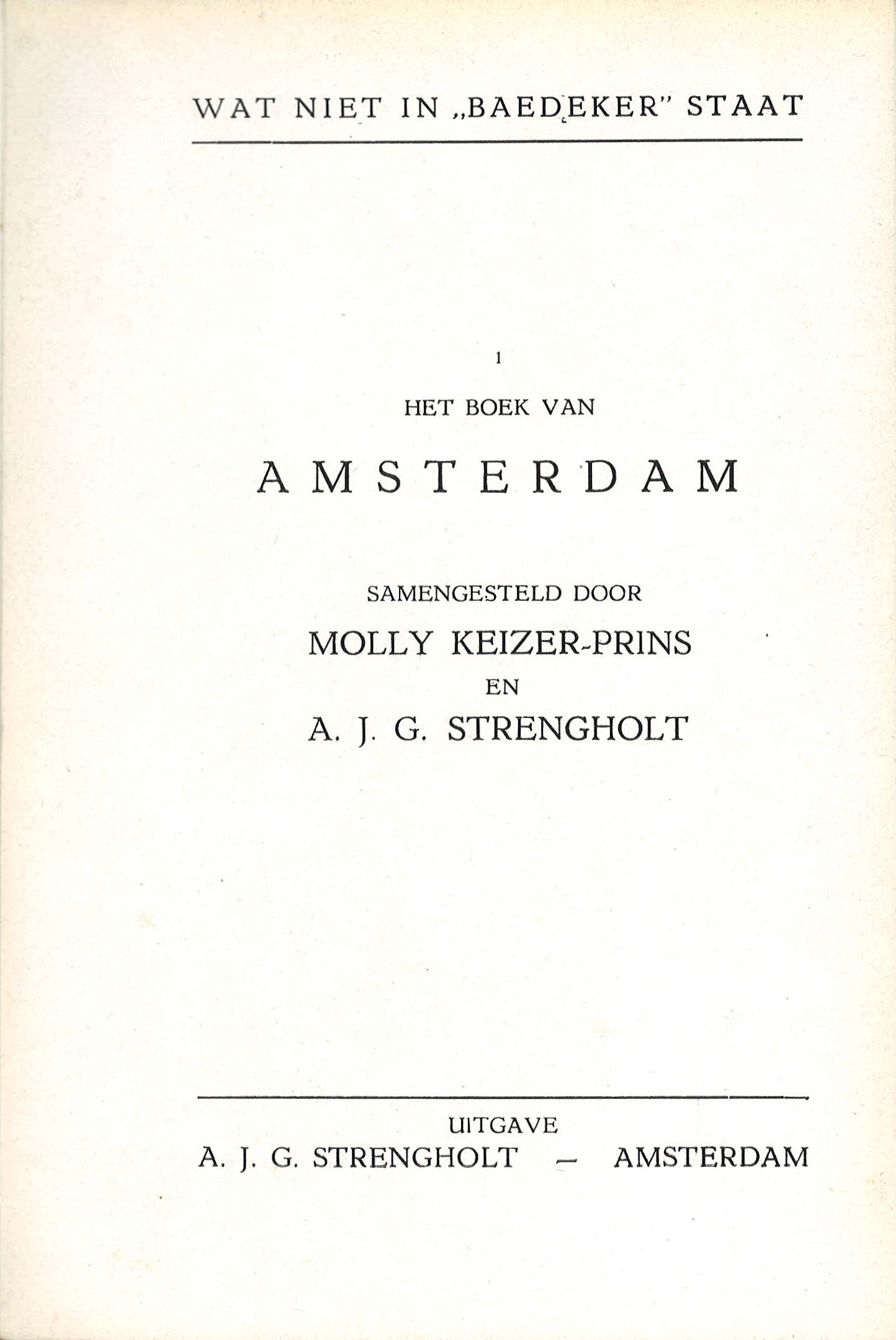 Frontispiece of "Het boek van Amsterdam", 1st edition (1930), in the series "Wat niet in Baedeker staat"